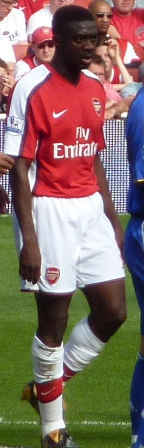 Kolo Toure in an Arsenal shirt.